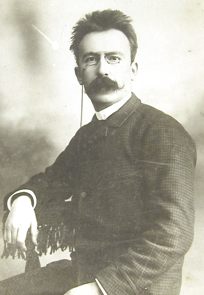 The Anarchist Andrea Costa (1851-1910)